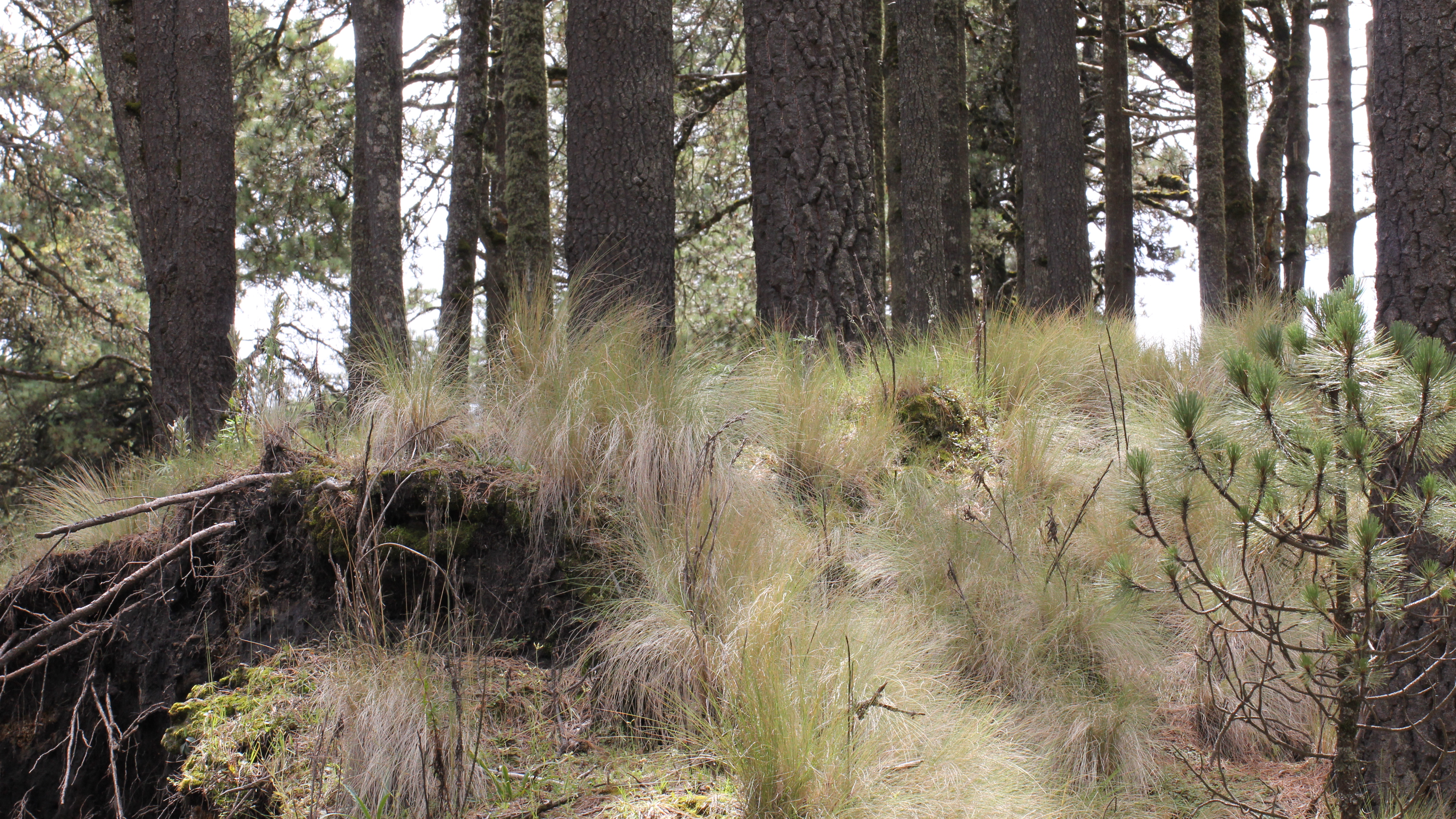 Typical habitat of the hallucinogenic mushroom Psilocybe aztecorum R. Heim. Location: Popocatépetl, Mexico. "Notes: Under Pinus hartwegii, 3400 meters elevation."